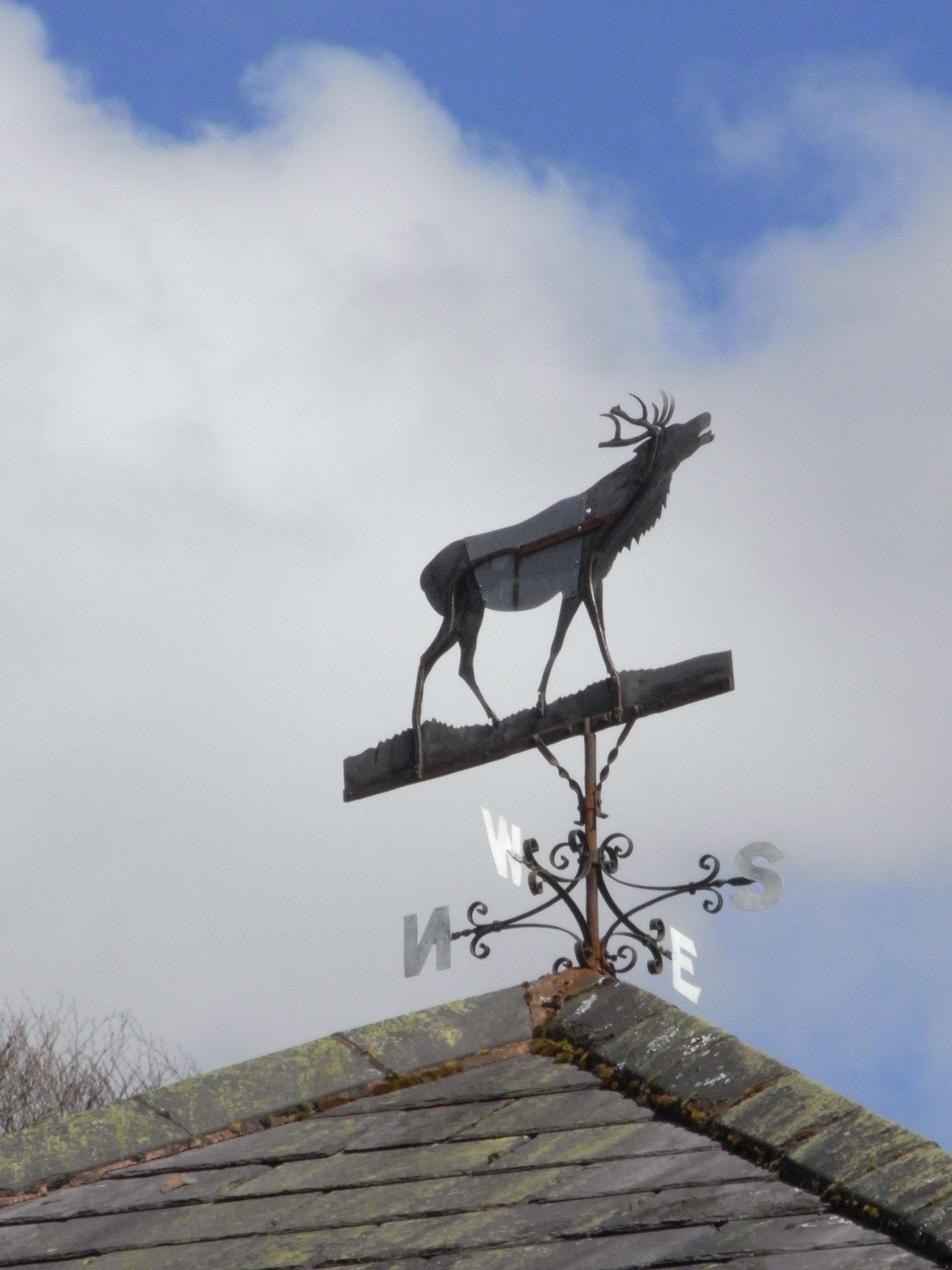 Stag windvane atop Diana Lodge (now Simonsbath House), stag-hunting box of Earls Fortescue.